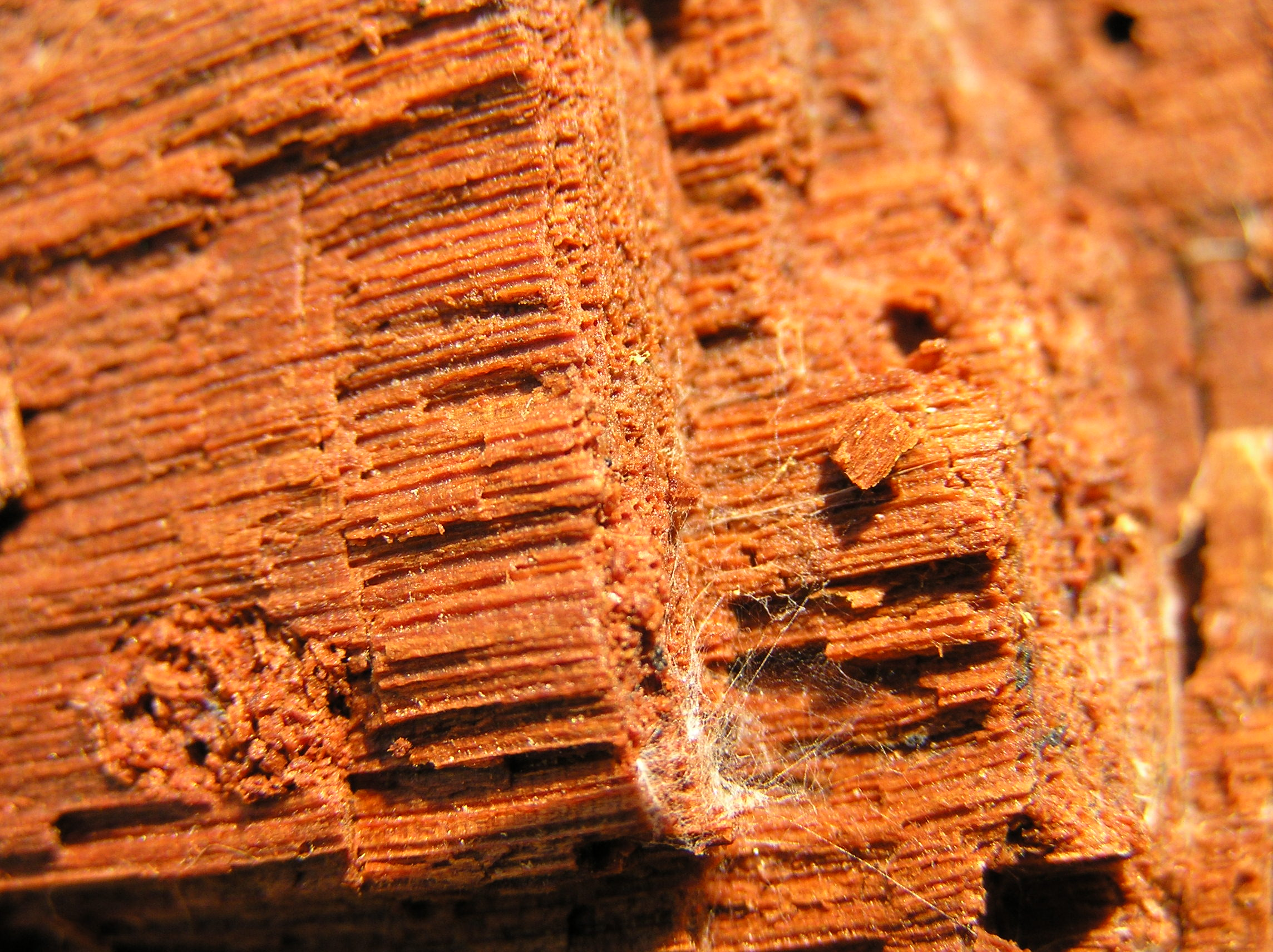 Cubical rot, checked, on Quercus, Białowieża forest, Poland